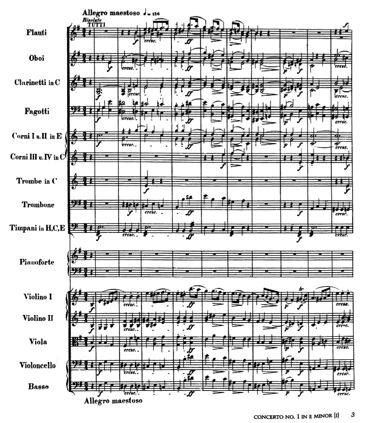 Published by Breitkopf & Härtel, probably post-1850